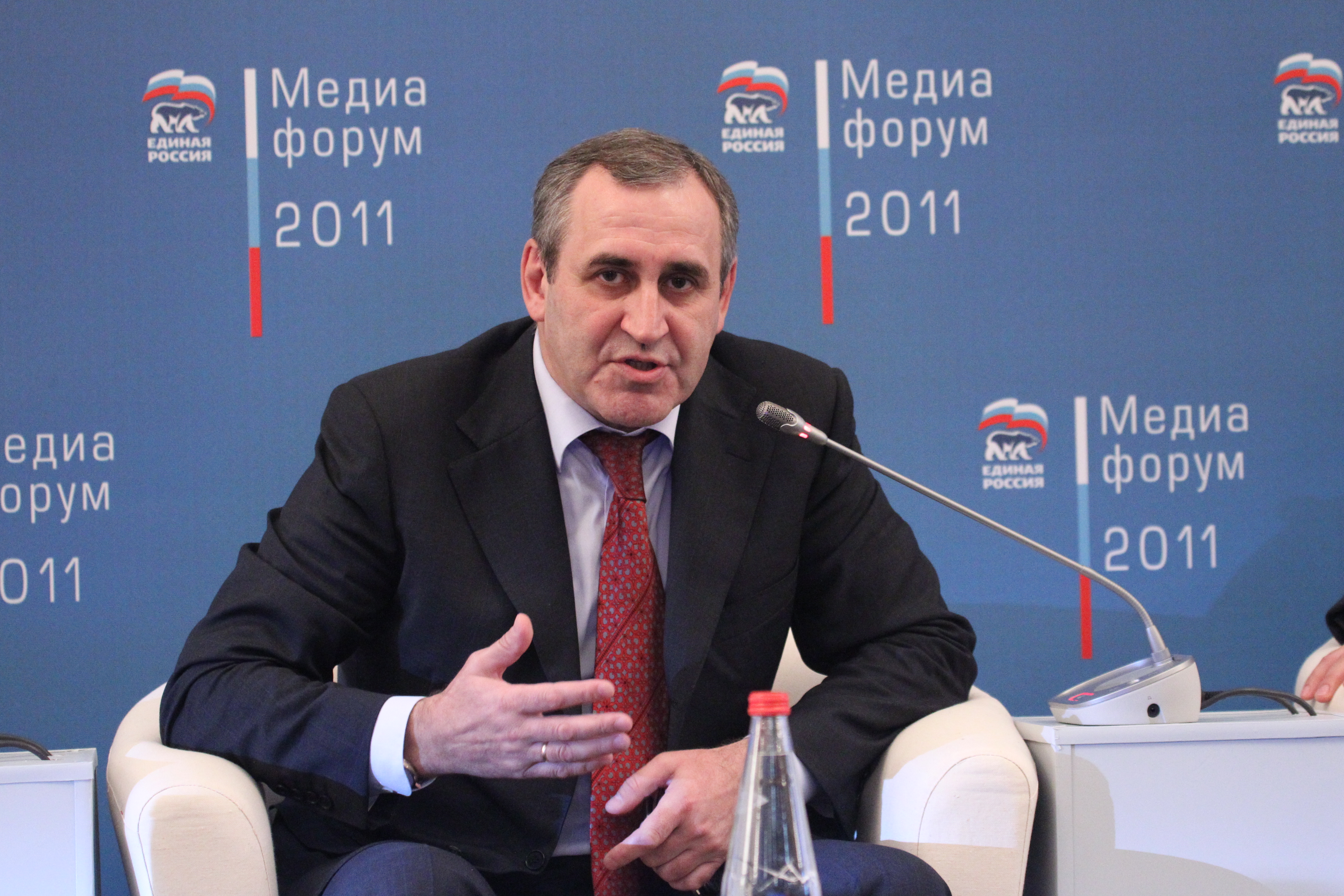 A photopotrait of Russian politician Sergey Neverov. 2011